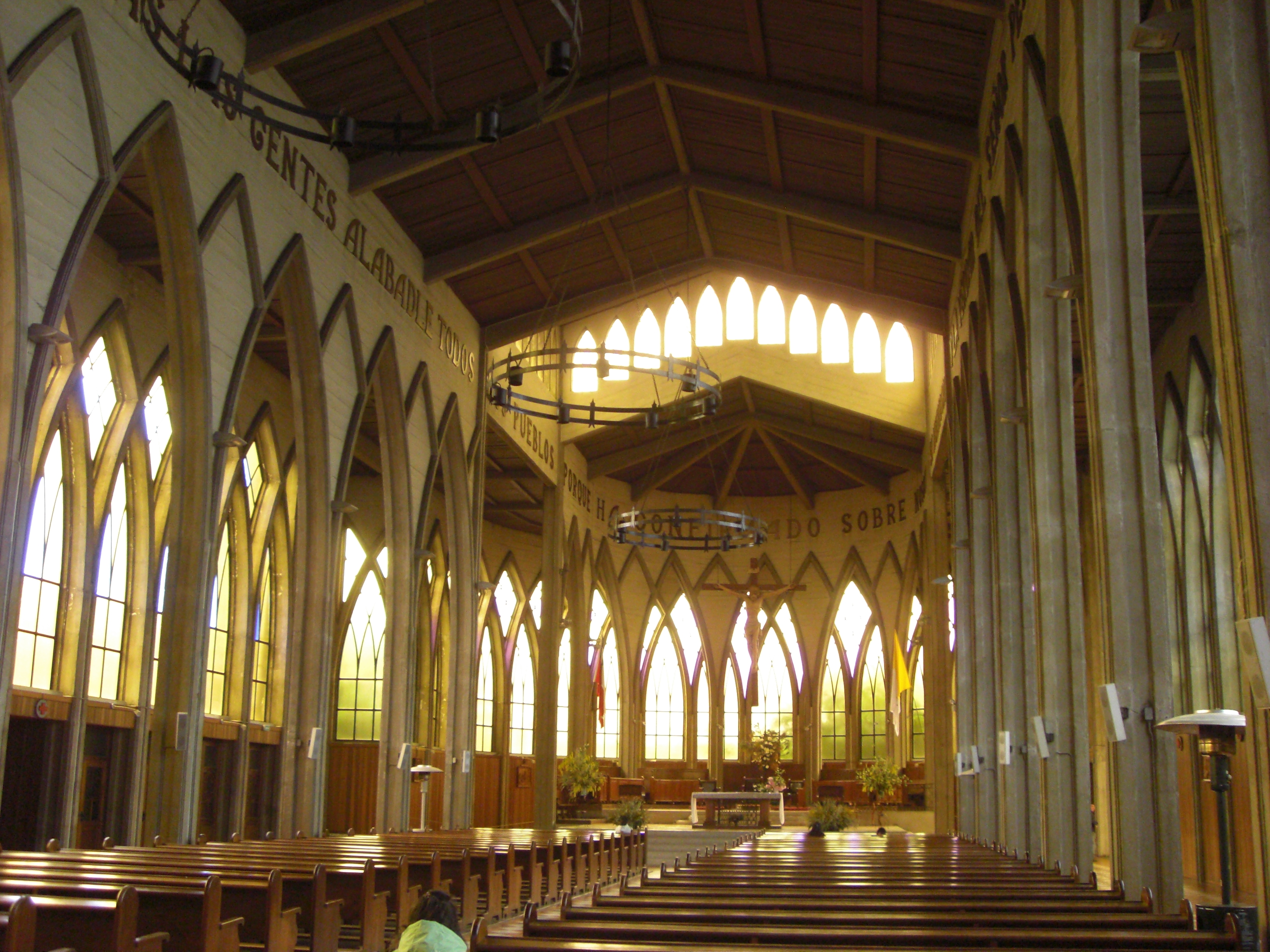 Catedral de Osorno, Osorno, Chile